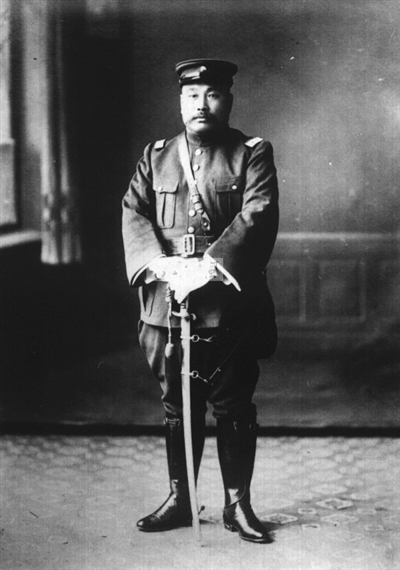 Tang Yulin